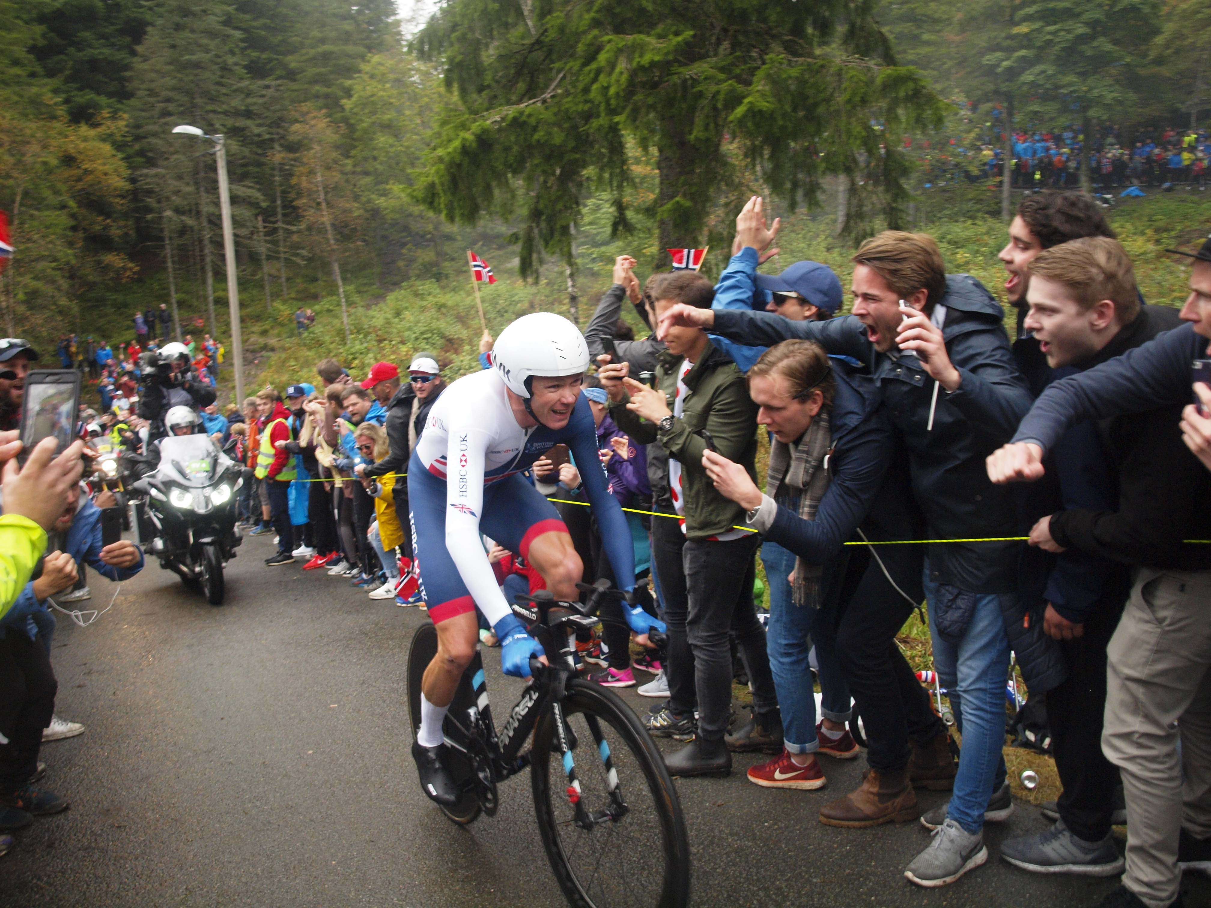 Chris Froome at the 2017 UCI World Championships